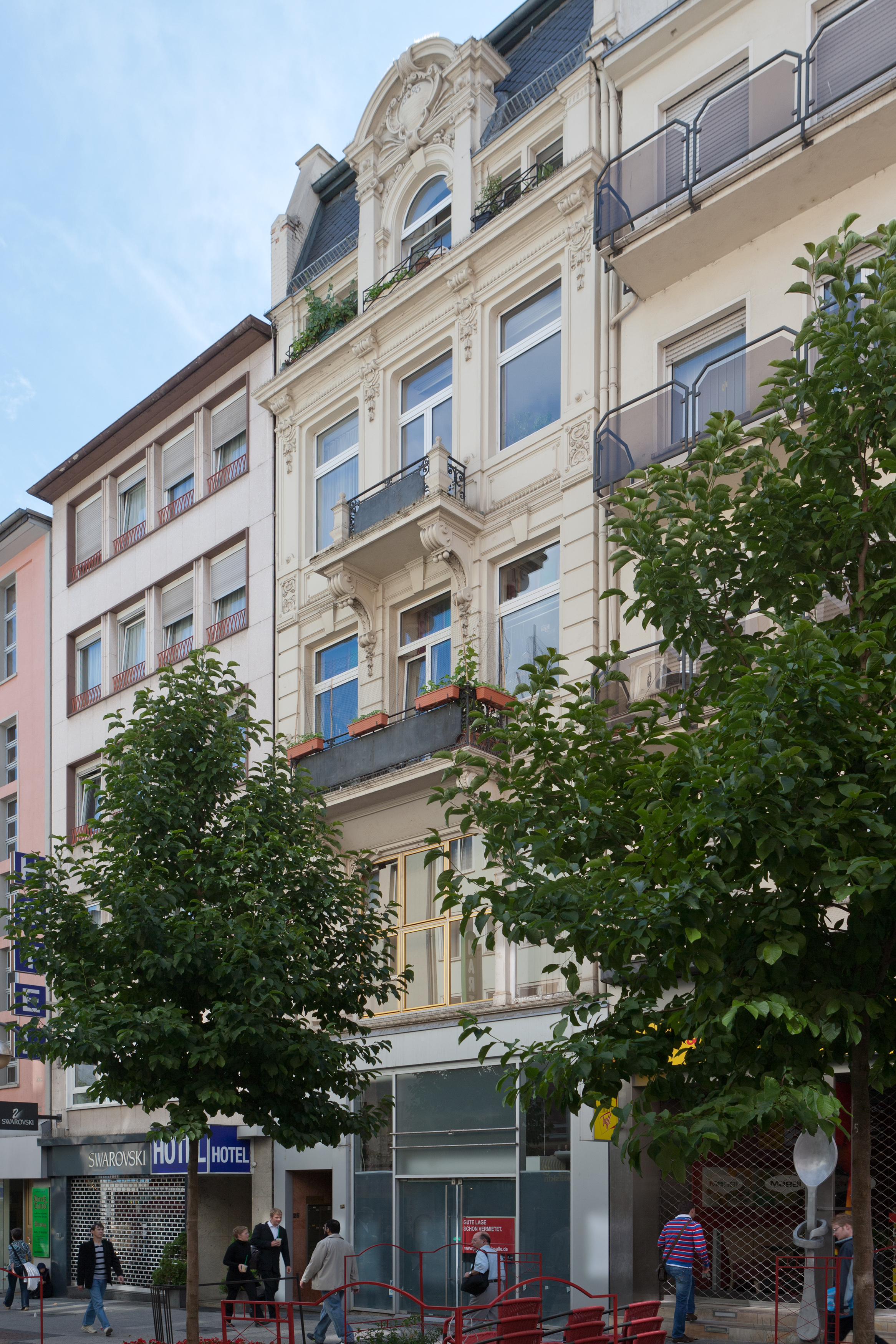 Frankfurt on the Main: Neue Kräme (New Market) 25 as seen from the northeast